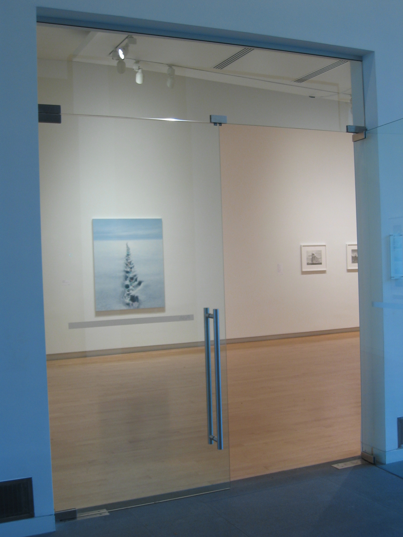 The Aldrich Contemporary Art Museum (Ridgefield, Connecticut). One of the galleries.